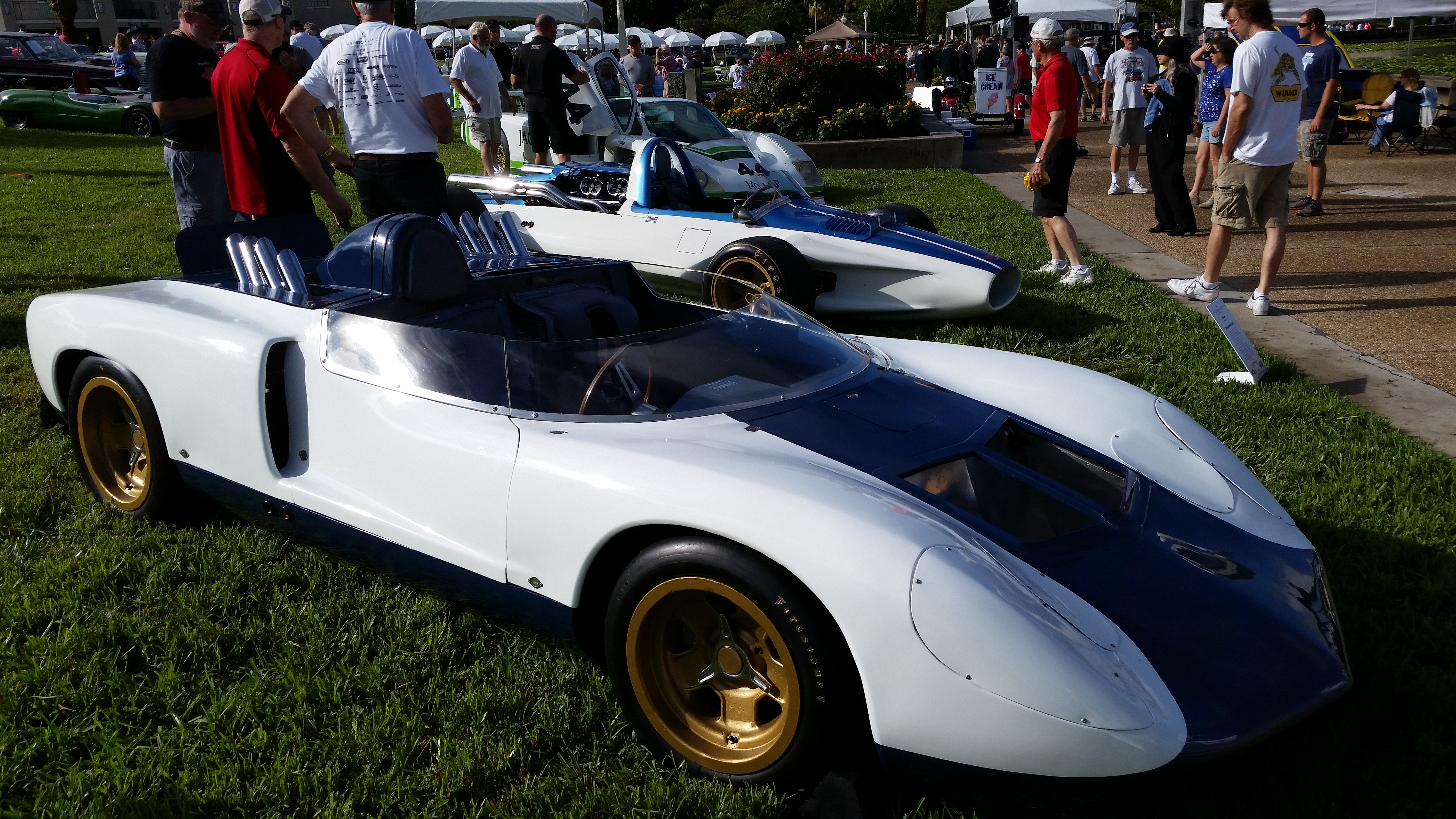 Chevrolet Engineering Research Vehicle II (1964) aka the CERV II